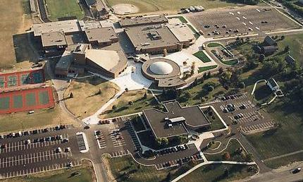 Novi High School aerial view